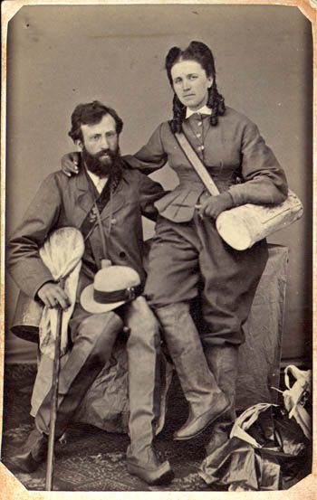 Johan and Mimmi Sahlberg Johan Reinhold Sahlberg (6 June, 1845, Helsinki – 8 May 1920, Helsinki) was a Finnish entomologist and is shown with an insect collecting net. Mimmi has a vasculum over her shoulder reflecting her interest in botany. The photograph was taken in 1873 before they left for a honeymoon field trip to Kuusamo. Photo Antero Saalas.